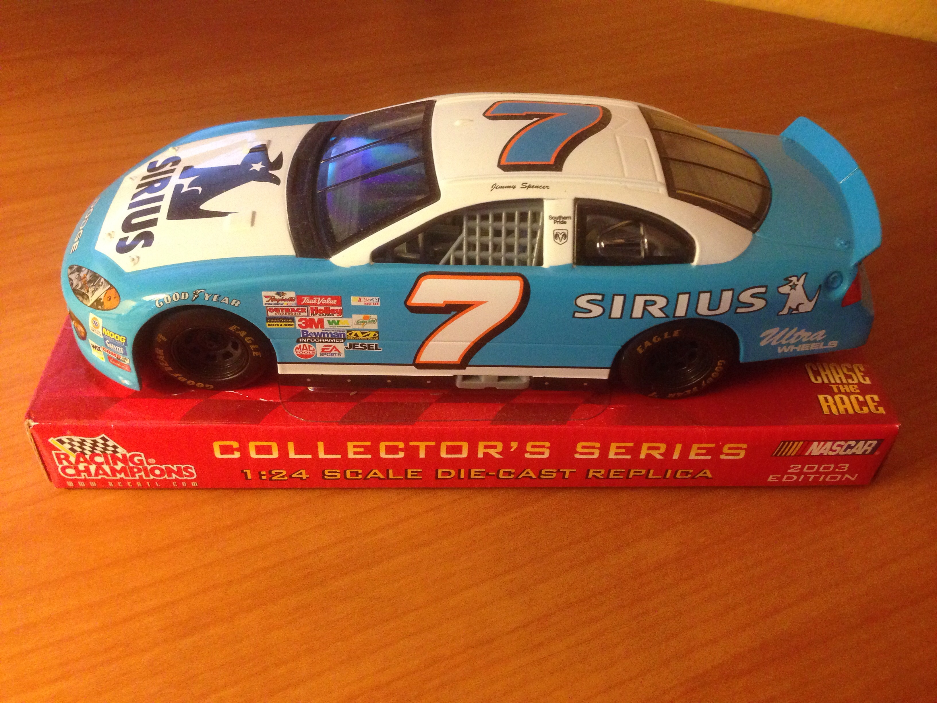 NASCAR driver Jimmy Spencer's No. 7 car as a 1:24 diecast.